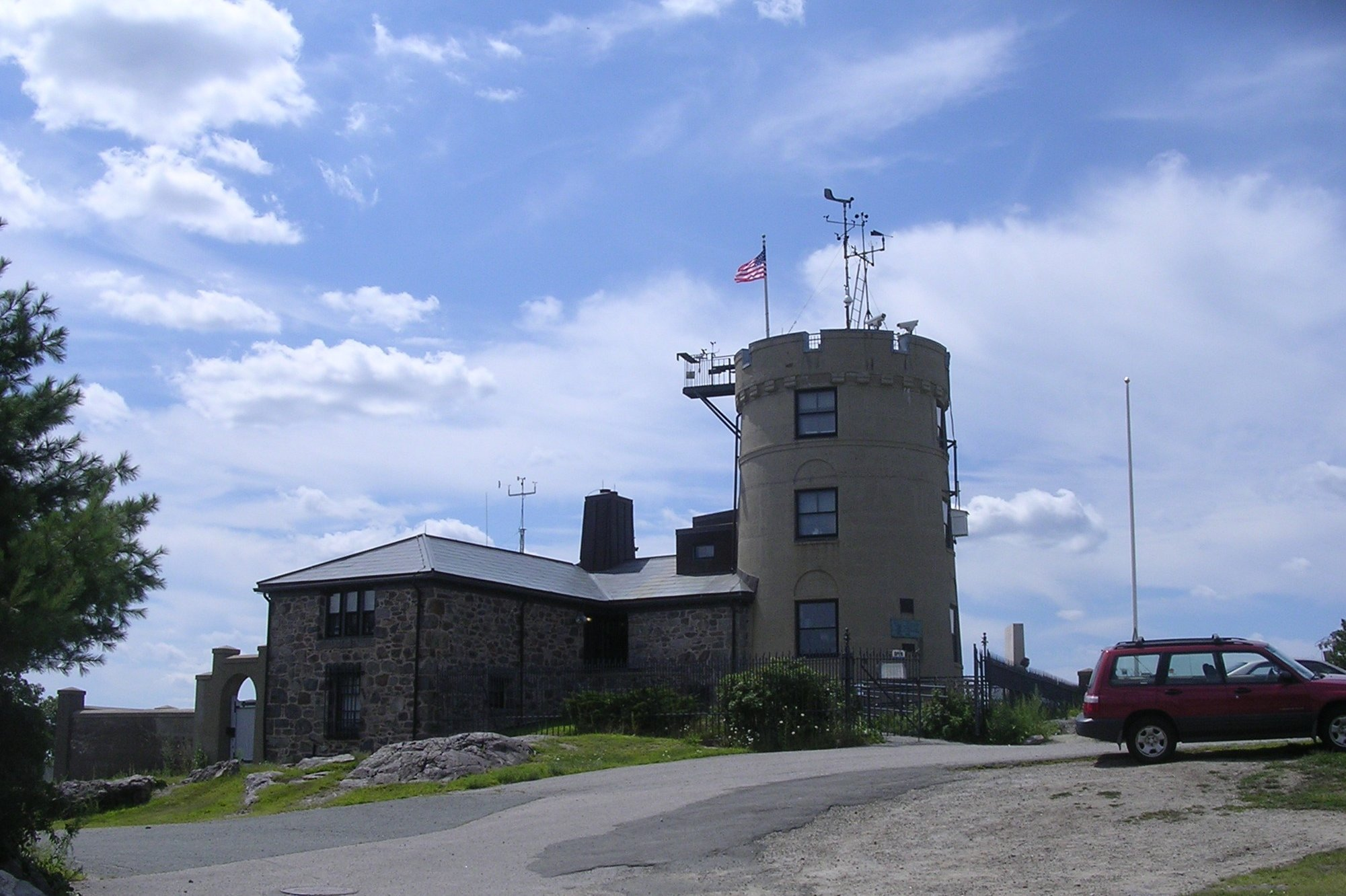 Blue Hill Observatory, Milton Massachusetts